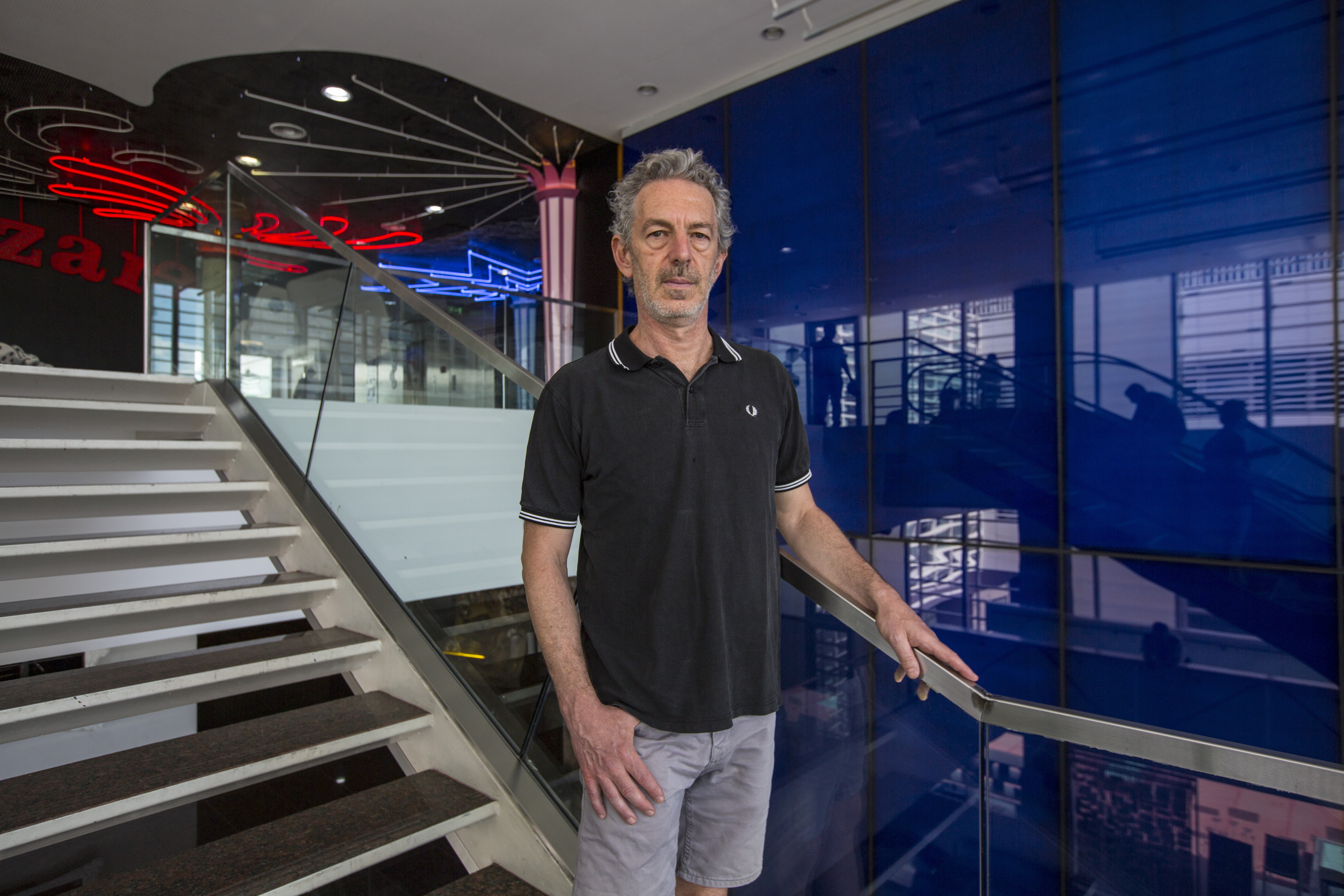 Buenos Aires, 21 January, 2019. Interview with Martin Rejtman. Picture by Romina Santarelli / Secretaria de Cultura de la Nacion.